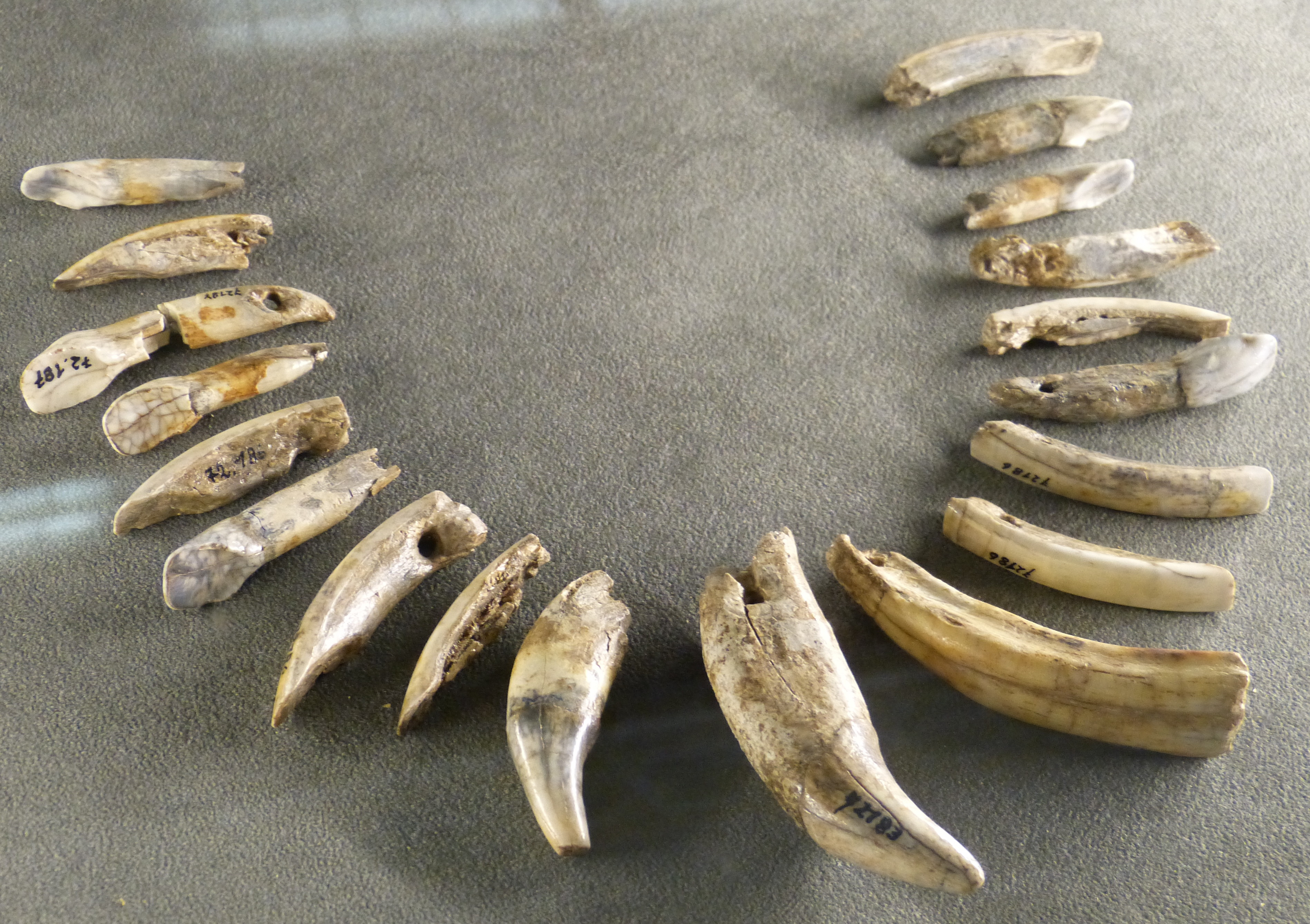 Natural History Museum, Vienna ( Austria ). Aurignacian necklace made of teeth of bear, horse, elk, beaver, from Mladec ( Czech Republic ).